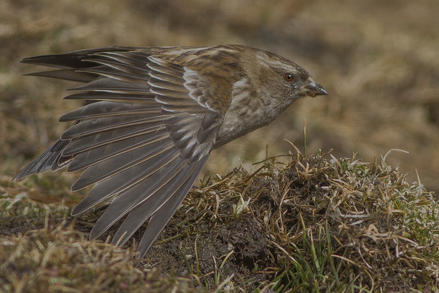 The species Plain Mountain Finch had been photographed during the birding trip of GoingWild in Pangolakha Wildlife Sanctuary at East Sikkim, India on 11.02.2016.